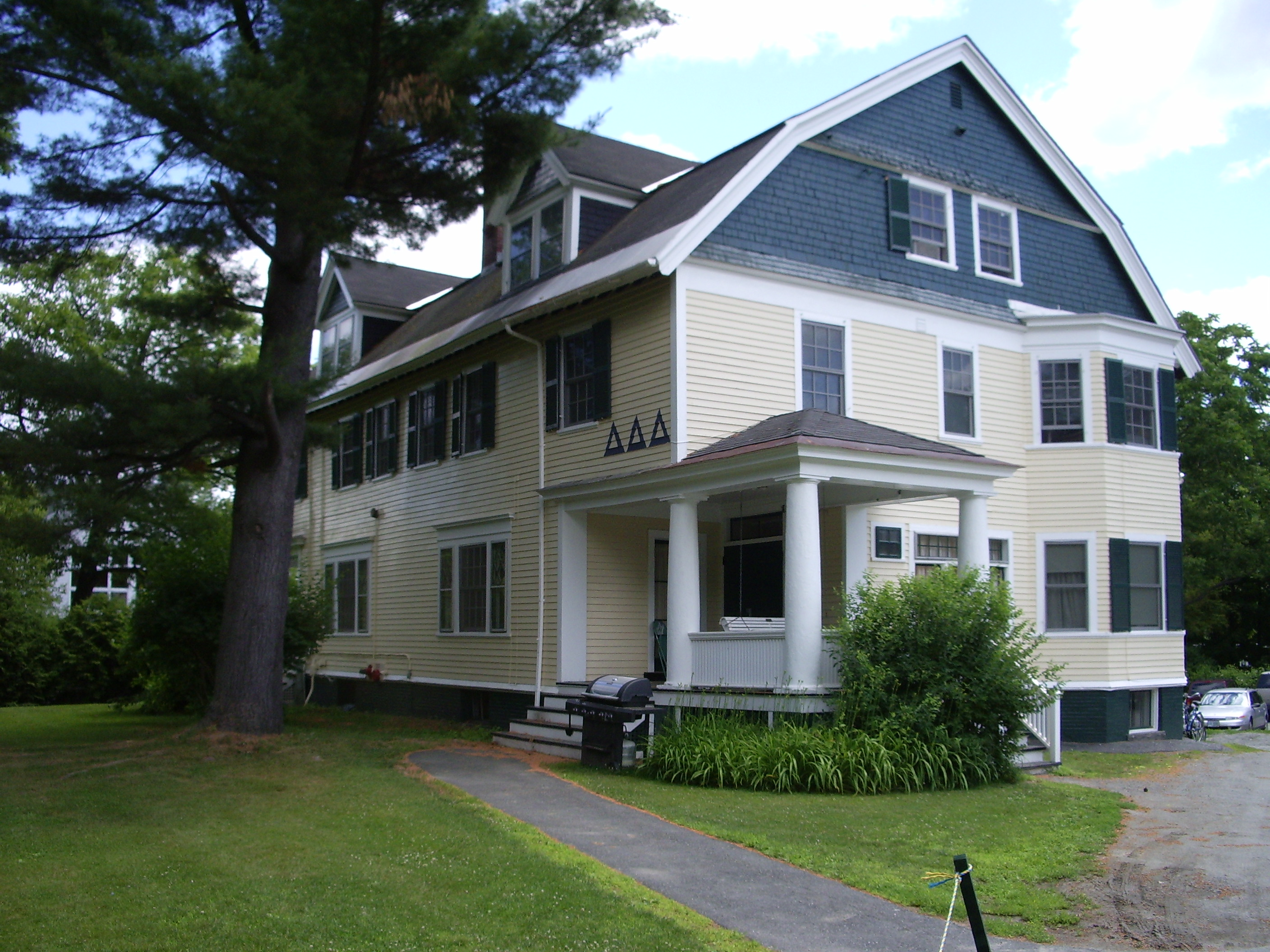 Photograph of Delta Delta Delta at the campus of Dartmouth College in Hanover, New Hampshire.